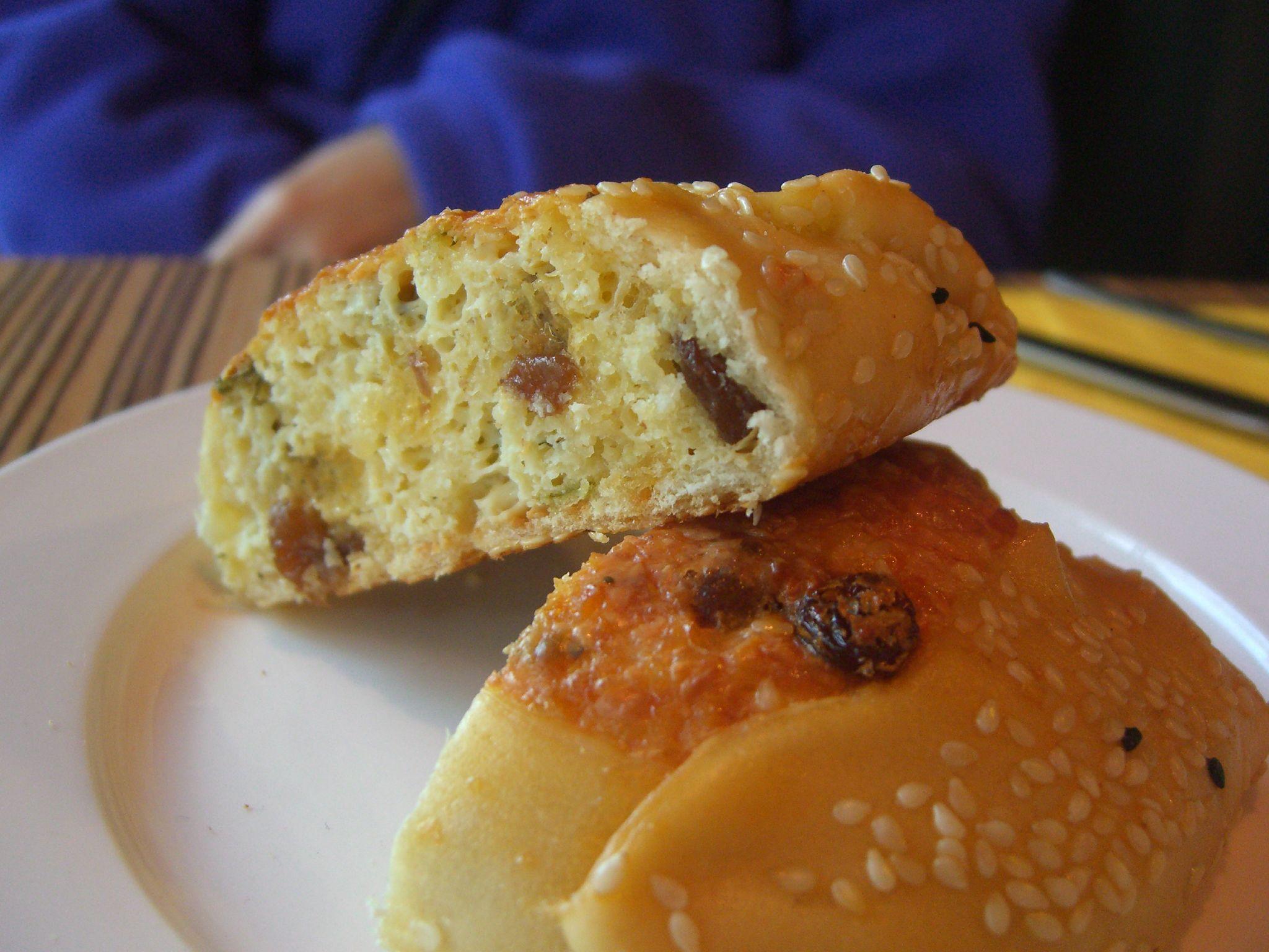 Flaounes halved - Warehouse Deli AUD3 --- Julia and I took a walk to Oakleigh for breakfast and to grab a few groceries. We had breakfast a a new cafe and deli which was doing all their lasagne and pastitsio in the oven in the morning. They had some flaounes, Greek Easter cheese pie , sitting on the counter, so we had one of those and a spanakopita for breakfast, along with a Greek coffee and caffe latte. The spanakopita was good, with quite a bit of spinach filling and small chunks of fetta cheese for that salty hit. The flaounes were a bit dry though. I've never had them before, so I'm not sure if that's what they were supposed to be like, but dipped into the caffee latte, they were fine :P After picking up some fruits, we tried to grab a loaf of bread and we were met with a queue of a dozen customers at Le Petit Pain eager to get their hands on loaves of warm crusty country style baguettes, the ones we usually get. At AUD2.10 each, they were a bargain! No wonder they were turning out a couple of dozen loaves every 5 minutes! Warehouse Deli 5 Eaton Mall Oakleigh 3166 (03) 9568 6655 Le Petit Pain French Bakery 35 Chester St Oakleigh VIC 3166 +61 3 9569 6120 Photos: - Flaounes - Flaounes - halved with cheese, sultanas and mint - Spanakopita - Julia with Country Style baguette - Full Moon over Chadstone Flaounes recipes: - Flaounes - - Flaounes